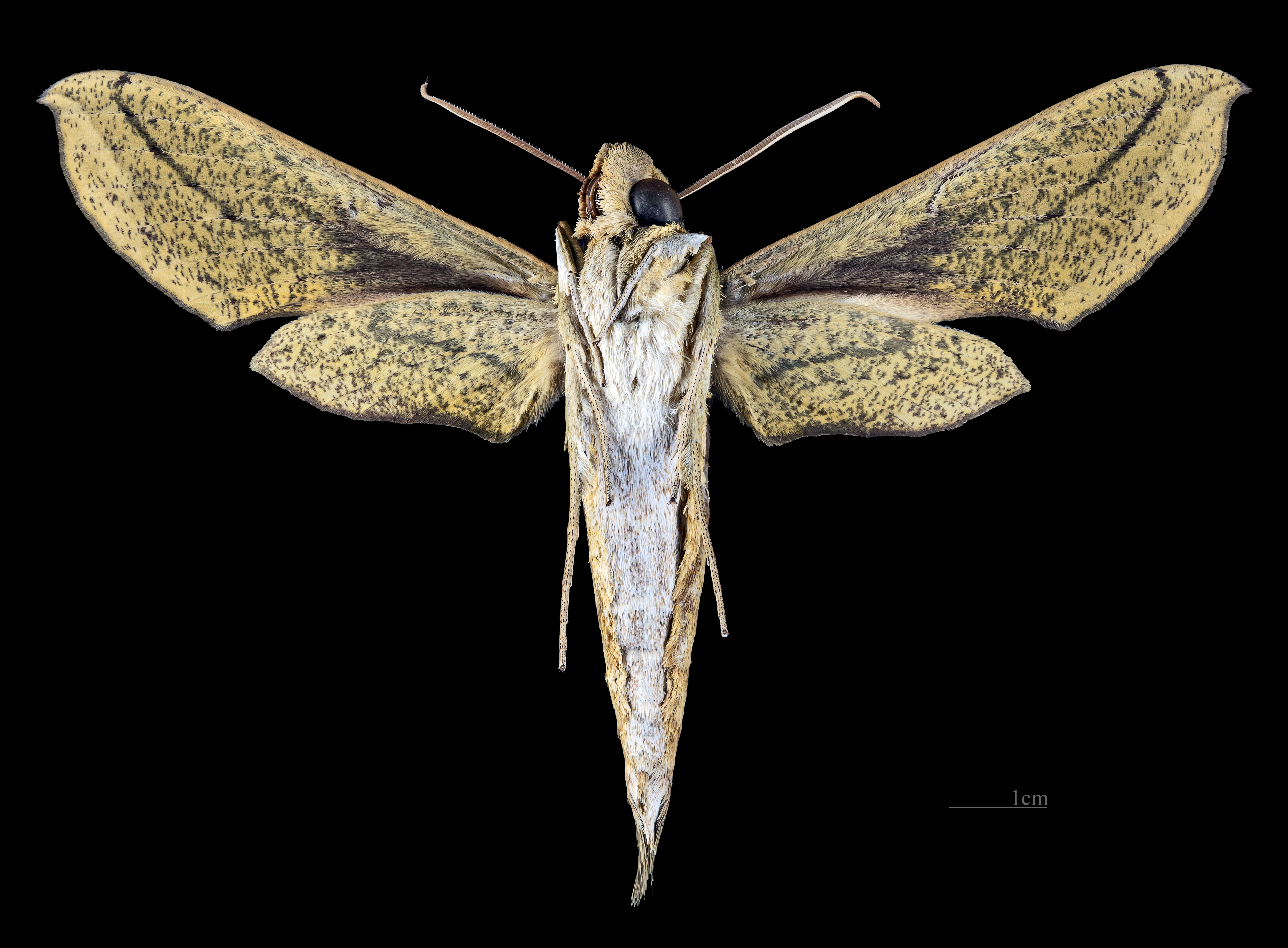 Xylophanes elara - △ Ventral side Collection of the Mathematician Laurent Schwartz